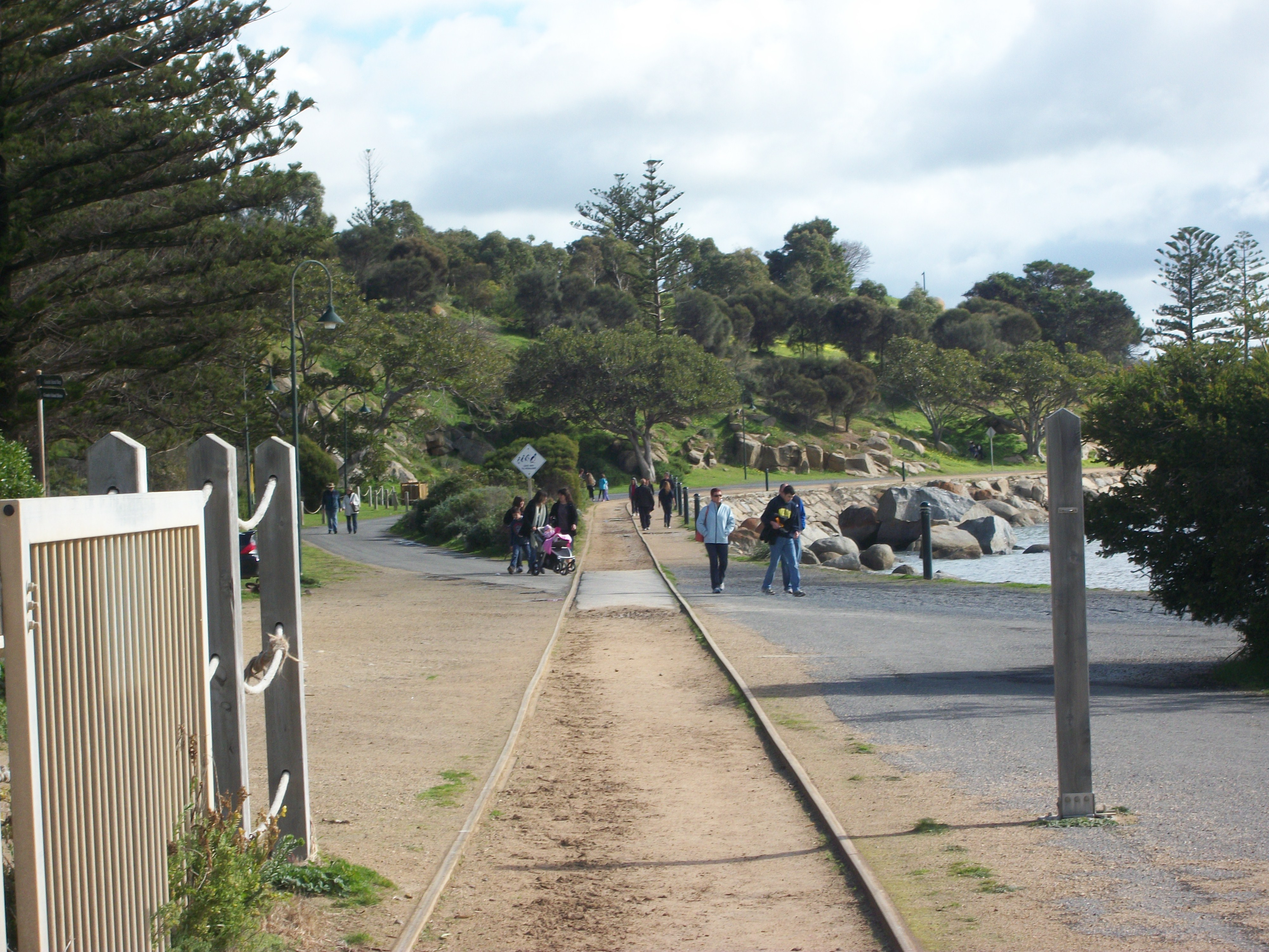 Granite island as seen from the tram station